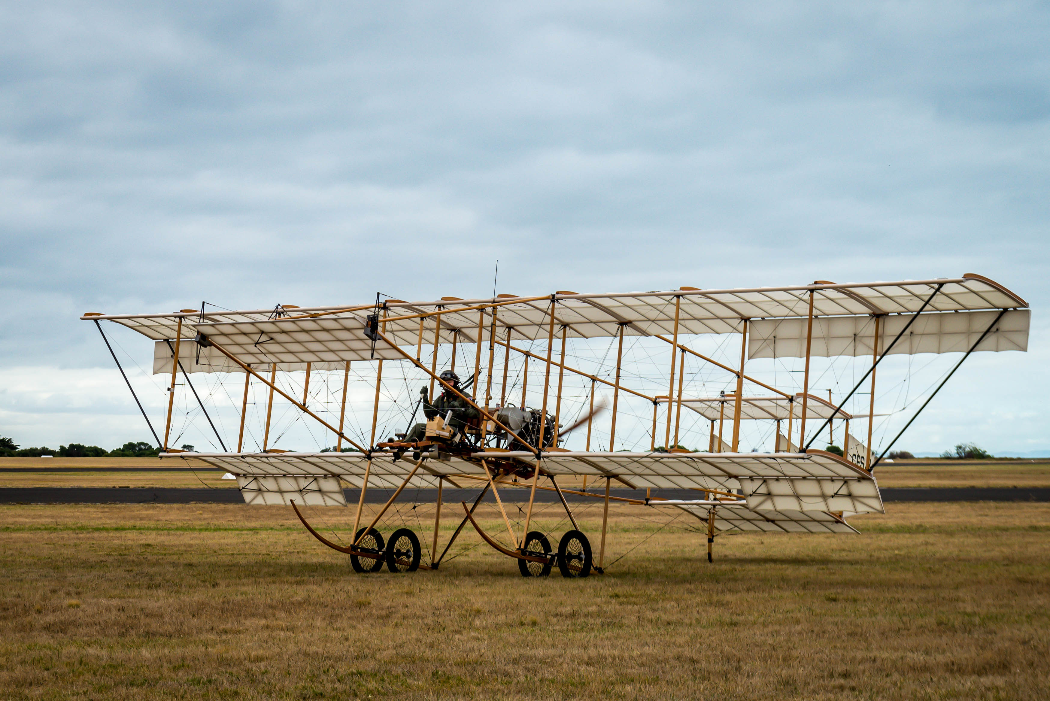 Bristol Boxkite Centenary Flight at RAAF Centenary of Military Aviation 2014